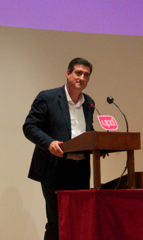 Spanish politician Ignacio Prendes.